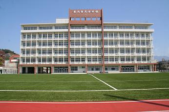 Kagoshima High School